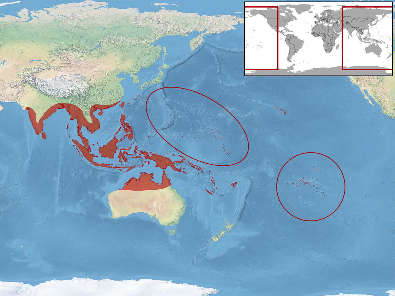 geographic distribution of Hemidactylus frenatus (Native: Bangladesh; Bhutan; Cambodia; China; Hong Kong; India (Andaman Is., Nicobar Is.); Indonesia; Japan; Malaysia; Myanmar; Pakistan; Papua New Guinea; Philippines; Singapore; Sri Lanka; Thailand; Viet Nam / Introduced: American Samoa (American Samoa); Australia; Belize; Christmas Island; Cocos (Keeling) Islands; Comoros; Cook Islands; Costa Rica; Ecuador; El Salvador; Fiji; French Polynesia; Guam; Guatemala; Honduras; Kenya; Kiribati; Madagascar; Maldives; Marshall Islands; Mauritius (Rodrigues); Mexico; Micronesia, Federated States of; Nauru; Nepal; New Caledonia; Nicaragua; Niue; Norfolk Island; Northern Mariana Islands; Palau; Panama; Réunion; Saint Helena, Ascension and Tristan da Cunha (Ascension); Samoa; Seychelles; Solomon Islands; Somalia; Taiwan, Province of China; Togo; Tonga; Tuvalu; United States (Hawaiian Is.); United States Minor Outlying Islands; Vanuatu; Venezuela; Wallis and Futuna)